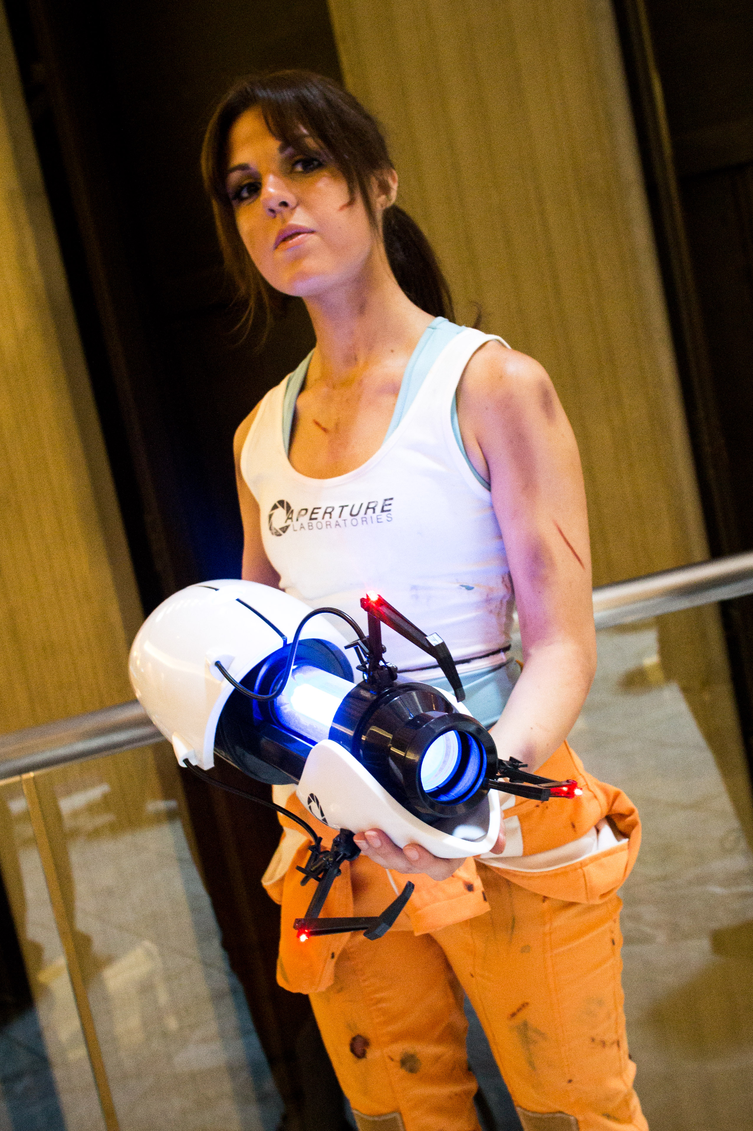 Cosplay of Chell (from Portal) at Dragon*Con 2013.